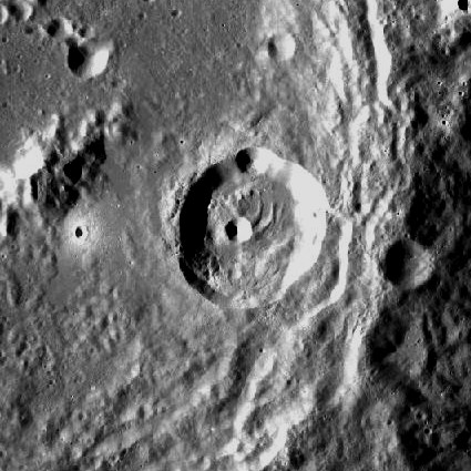 Planté at center, inside eastern sector of Keeler and next to common rim with Heaviside (at right border of image).